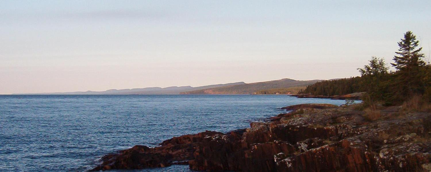 The Sawtooth Mountains in Cook County, Minnesota, USA, taken from the north shore of Lake Superior near the west harbor breakwater in Grand Marais, Minnesota. The mountains are formed by tilted strata of volcanic rock, which also are shown in the foreground shoreline rock.